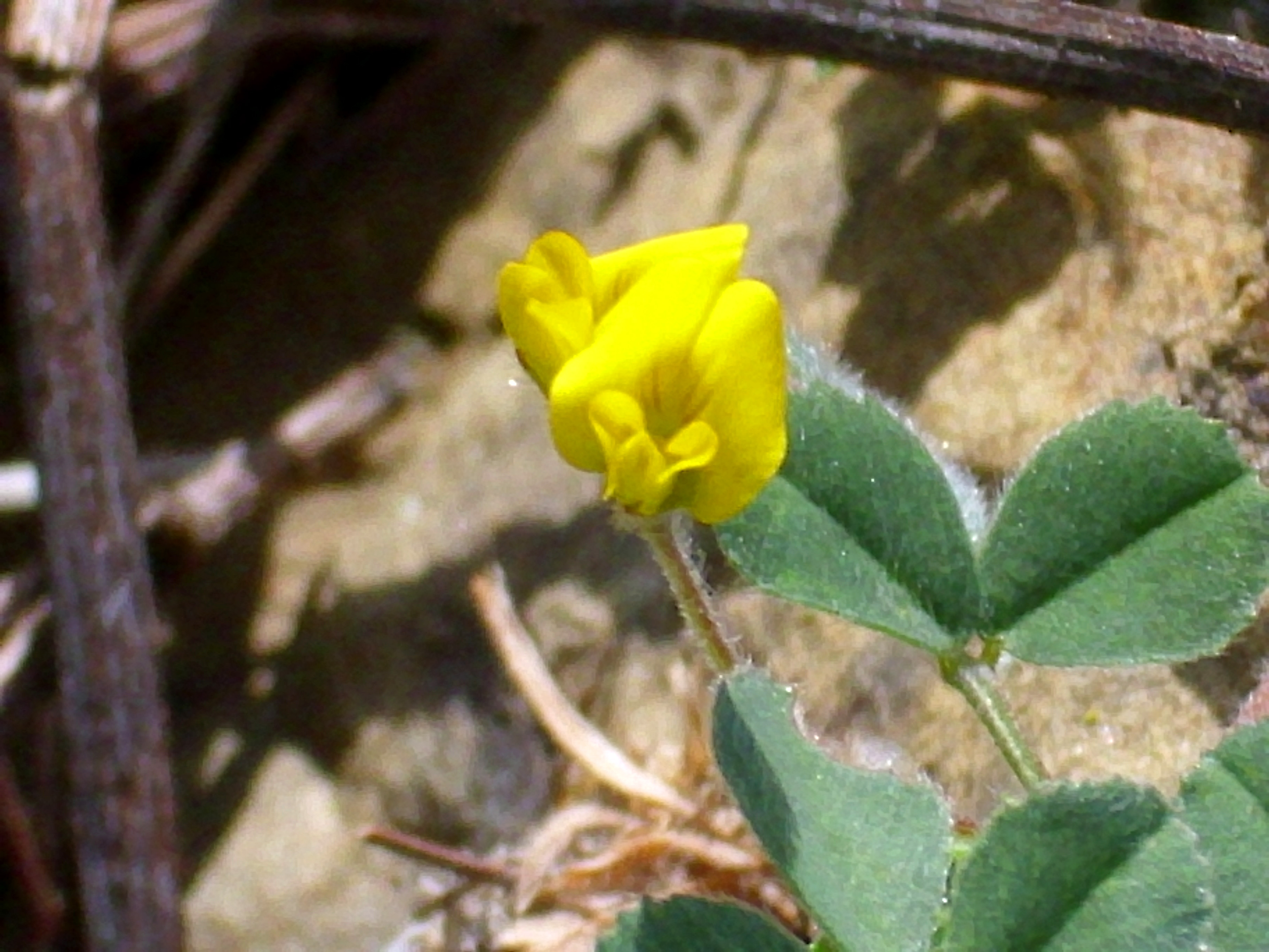 Medicago truncatula flowers close up, Dehesa Boyal de Puertollano, Spain